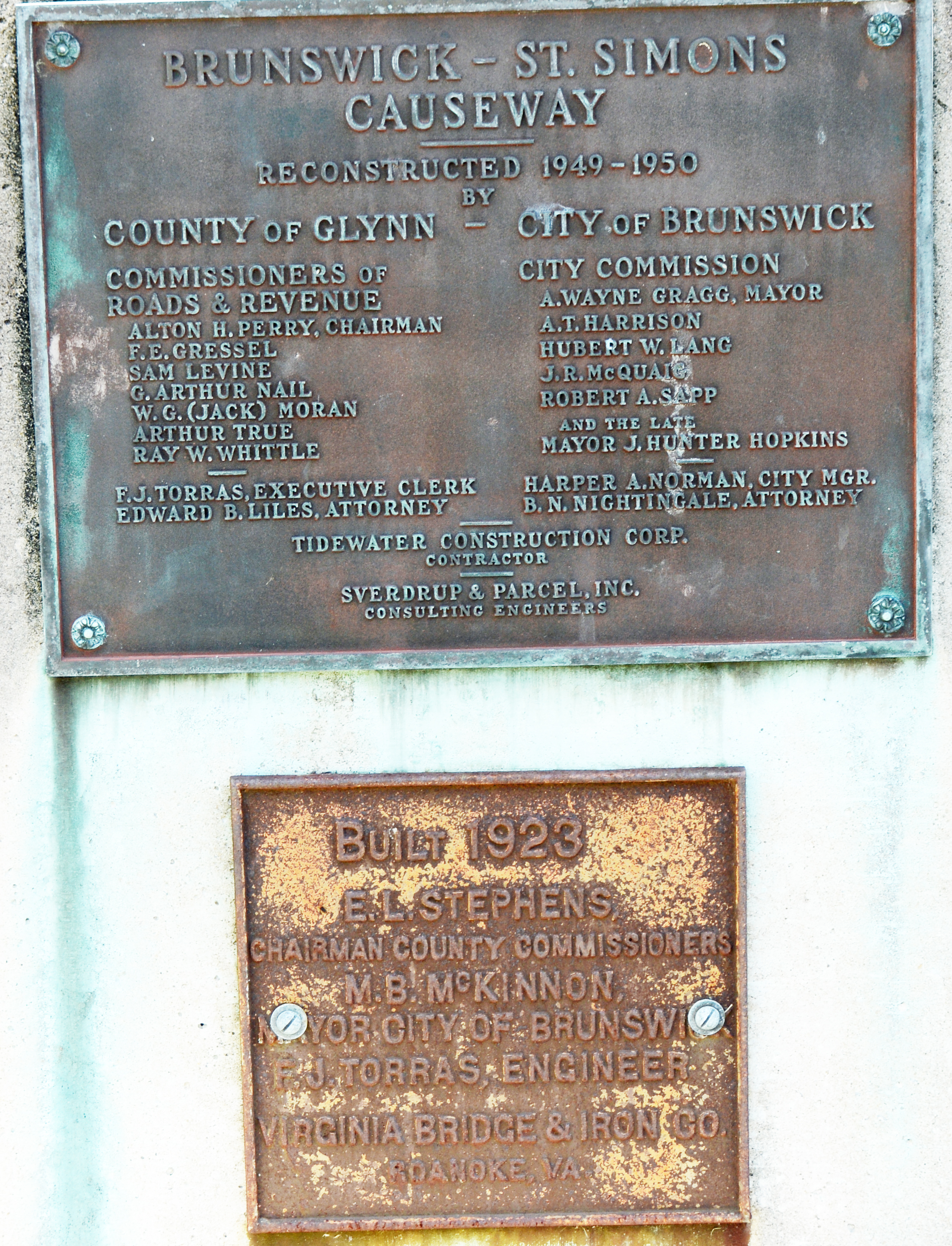 Sign for the FJ Torras Causeway, between Brunswick and St. Simons Island, Georgia, US